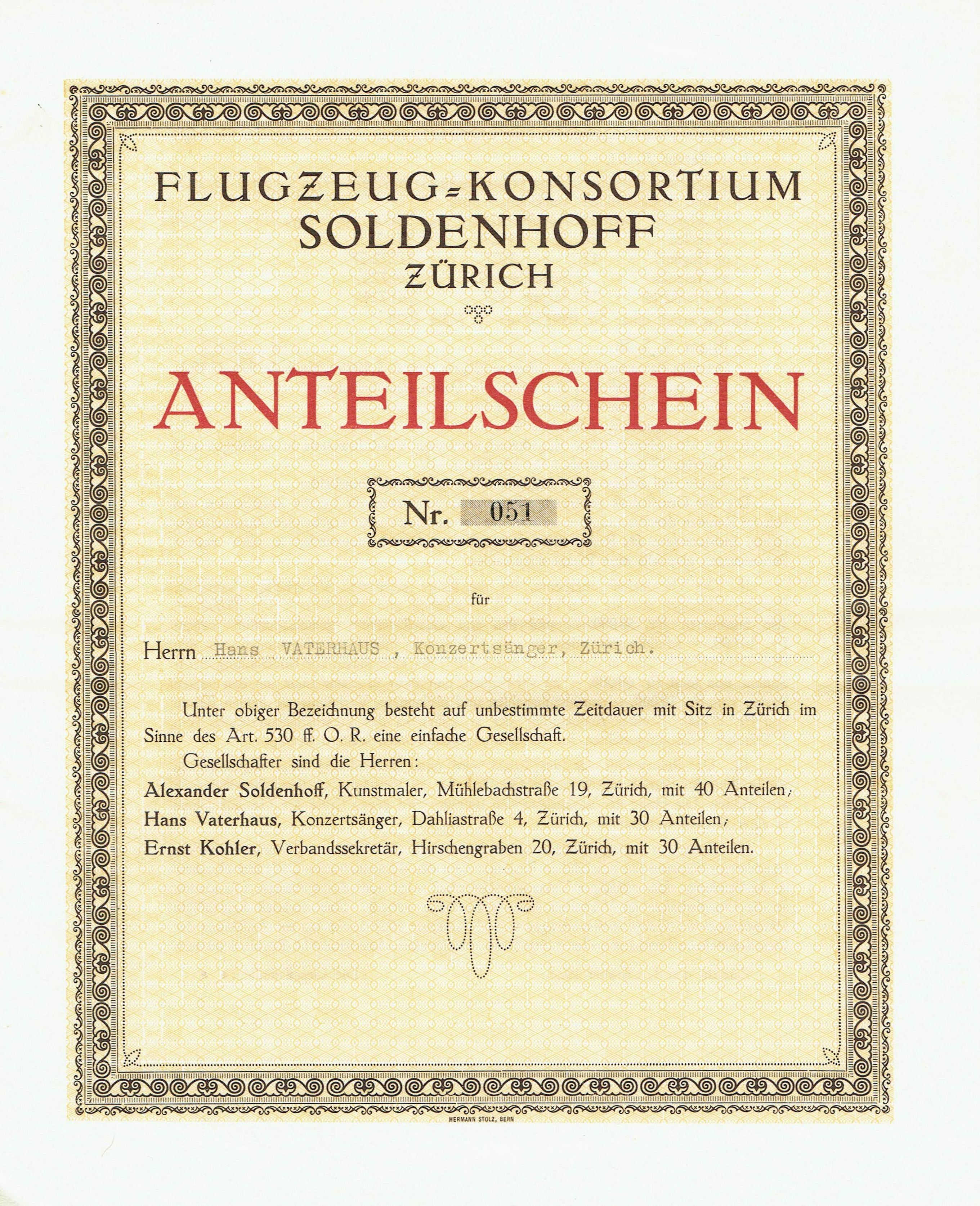 Stock certificate of the Flugzeug-Konsortium Soldenhoff, issued 1. October 1928